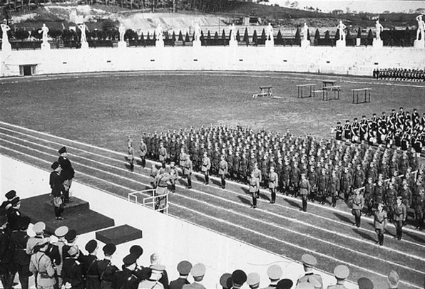 Military parade at the Stadio dei Marmi in Rome in front of Benito Mussolini